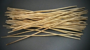 Yarrow stalks prepared by LPKaster meant for many years of professional use.